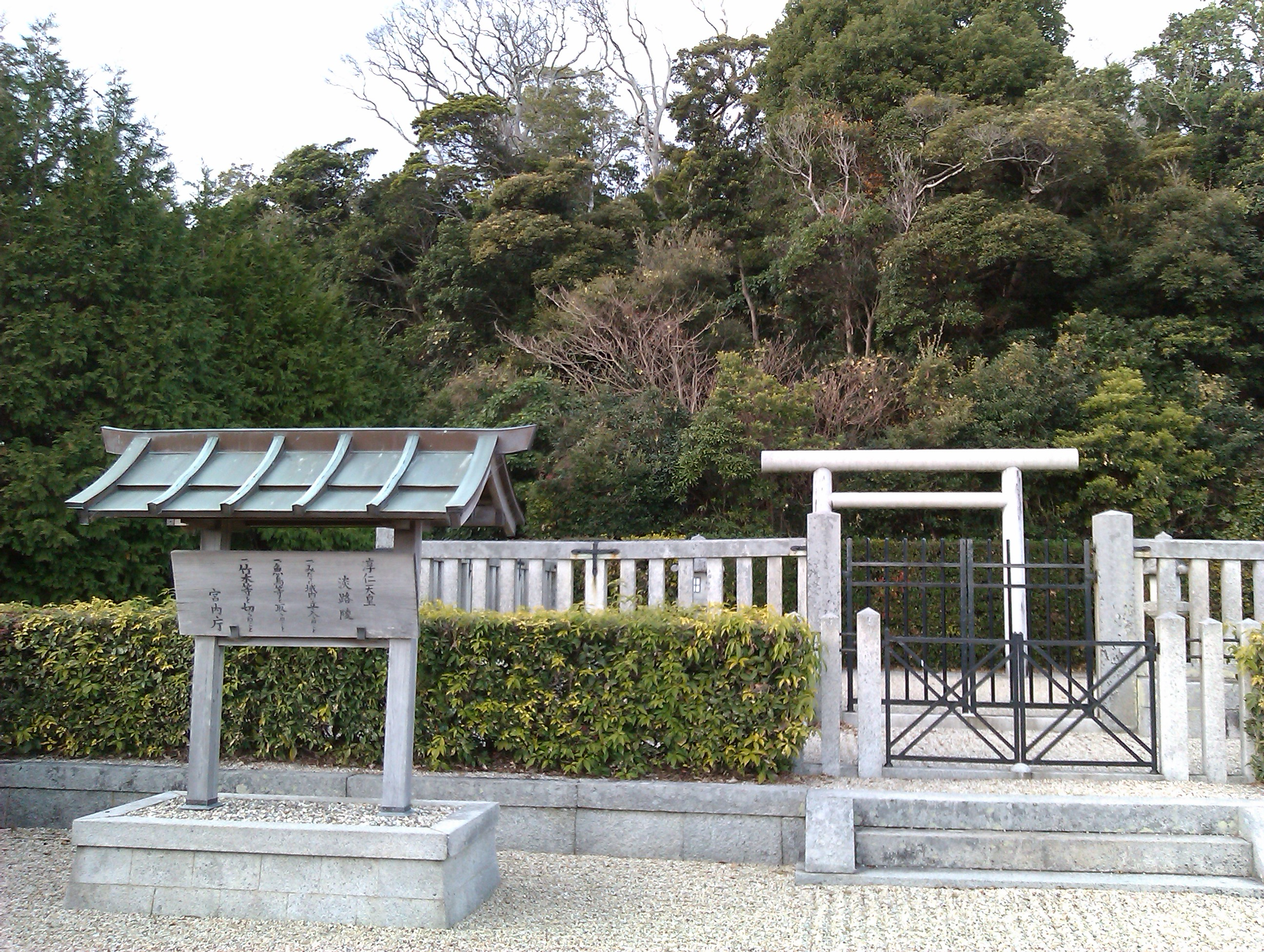 mausoleum of Emperor Junnin, Minami Awaji city, Hyogo prefecture, Japan.